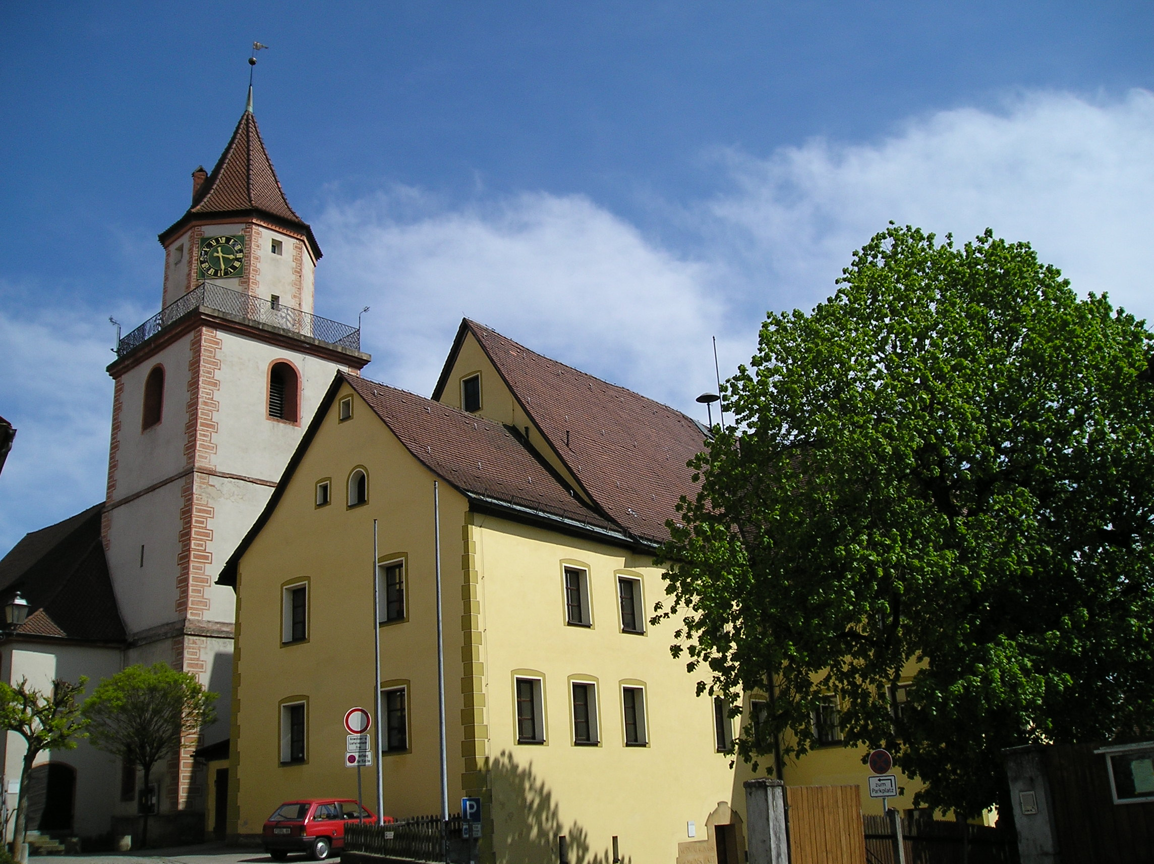 Town hall and town church of the town of Gräfenberg, Franconian Swiss mountain range, Germany.